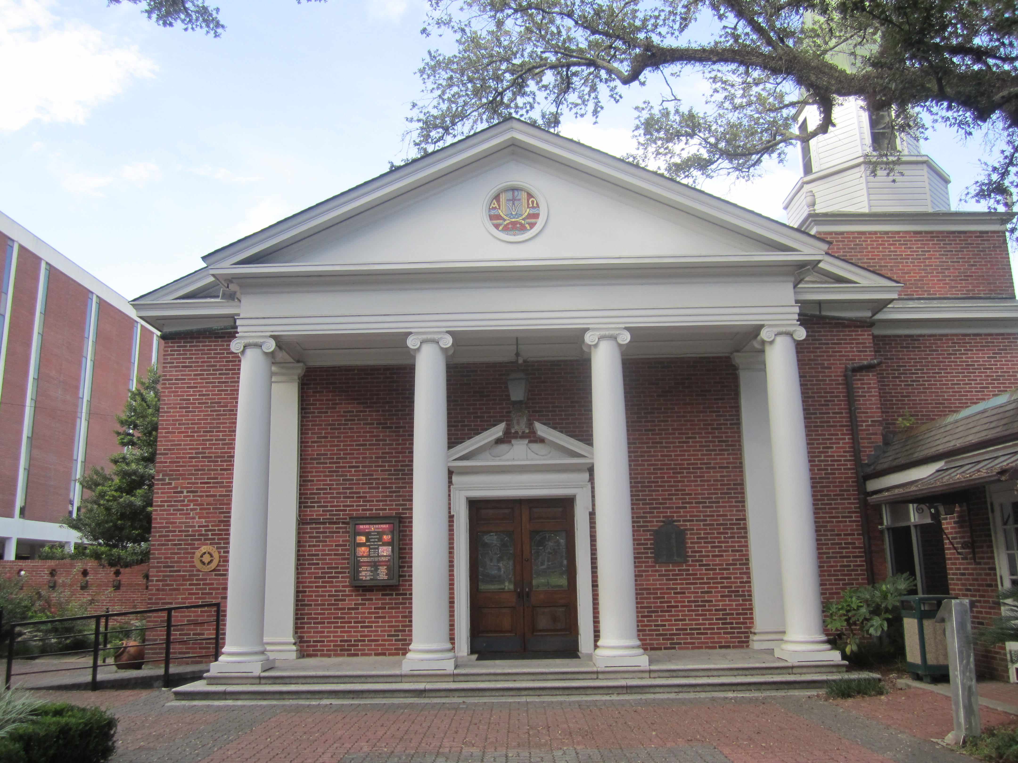 I took photo of Our Lady of Wisdom Catholic Church and Student Center at the University of Louisiana at Lafayette, using Canon camera.